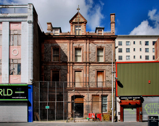 The childrens hospital in 2010.